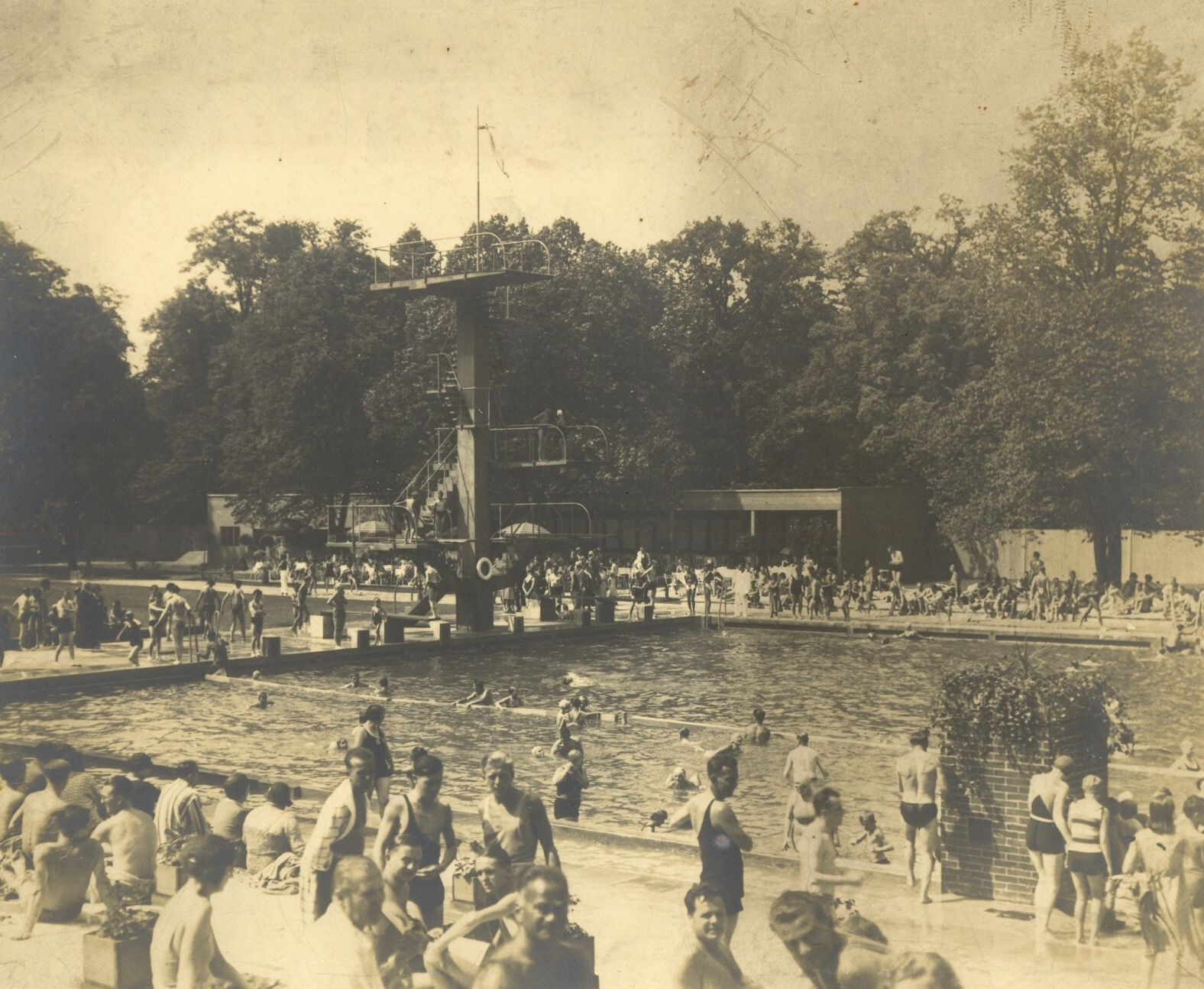 Teplice: swimming pool in 1930 Česky: Teplická plovárna v roce 1930